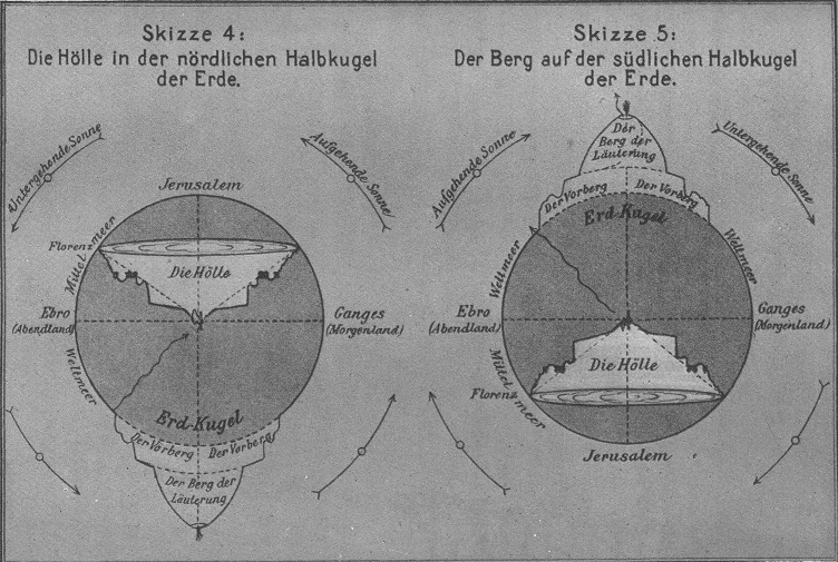 This is a scan of the historical document